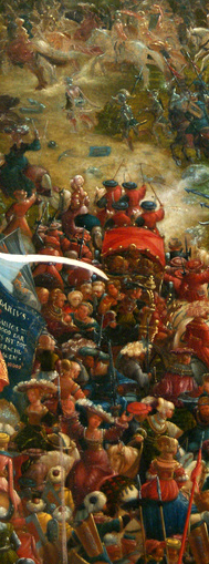 Battle of Alexander the Great against Persian King Darius